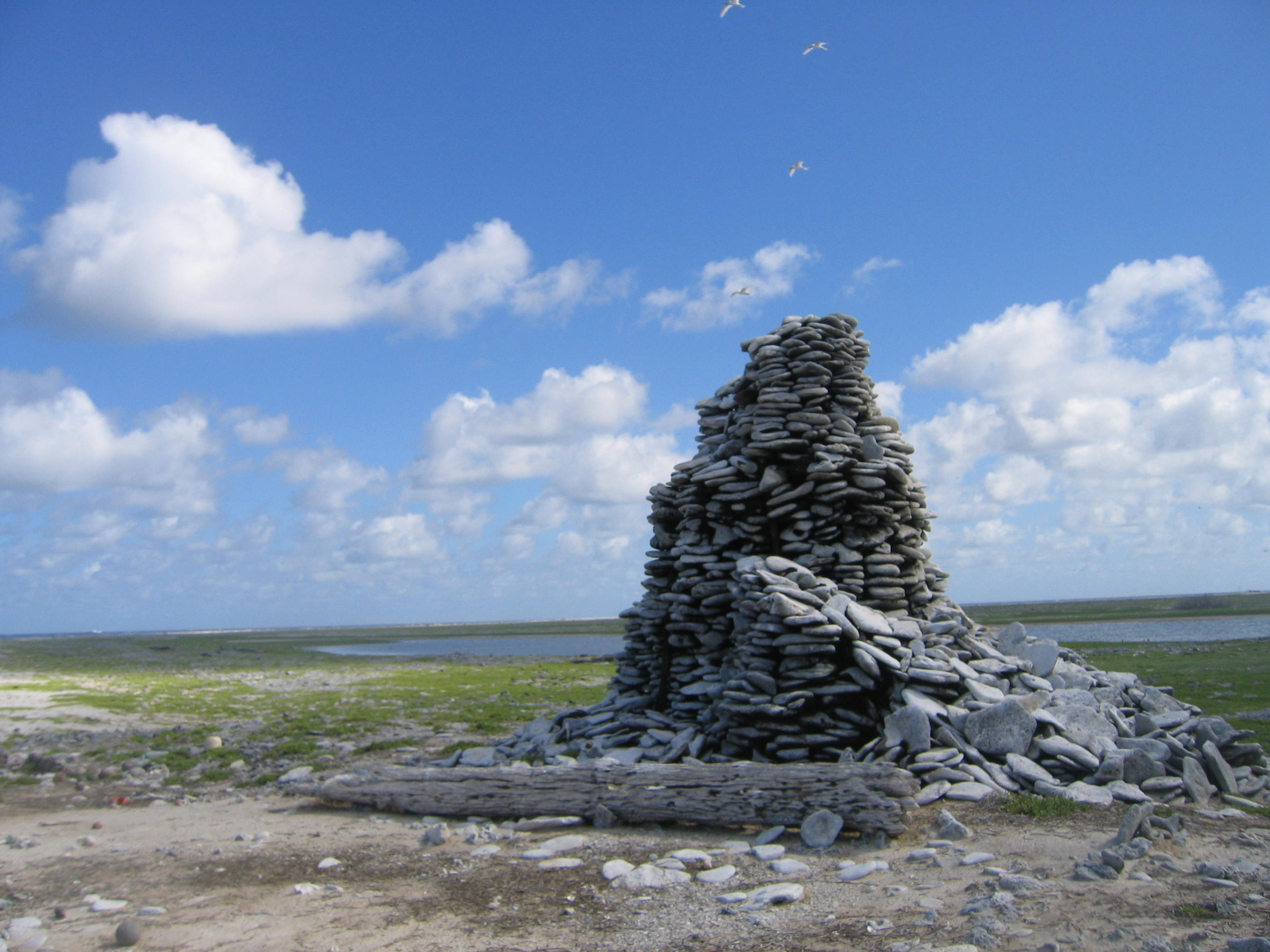 Birnie Island Day Beacon, Phoenix Islands, Kiribati